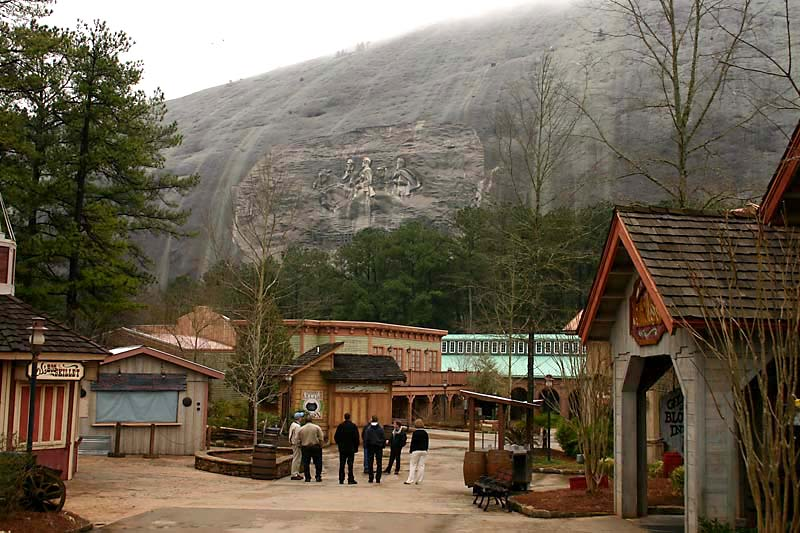 Photo of the carving on Stone Mountain, granite dome located in Georgia, USA. Carving displays figures of Stonewall Jackson, Robert E. Lee and Jefferson Davis.